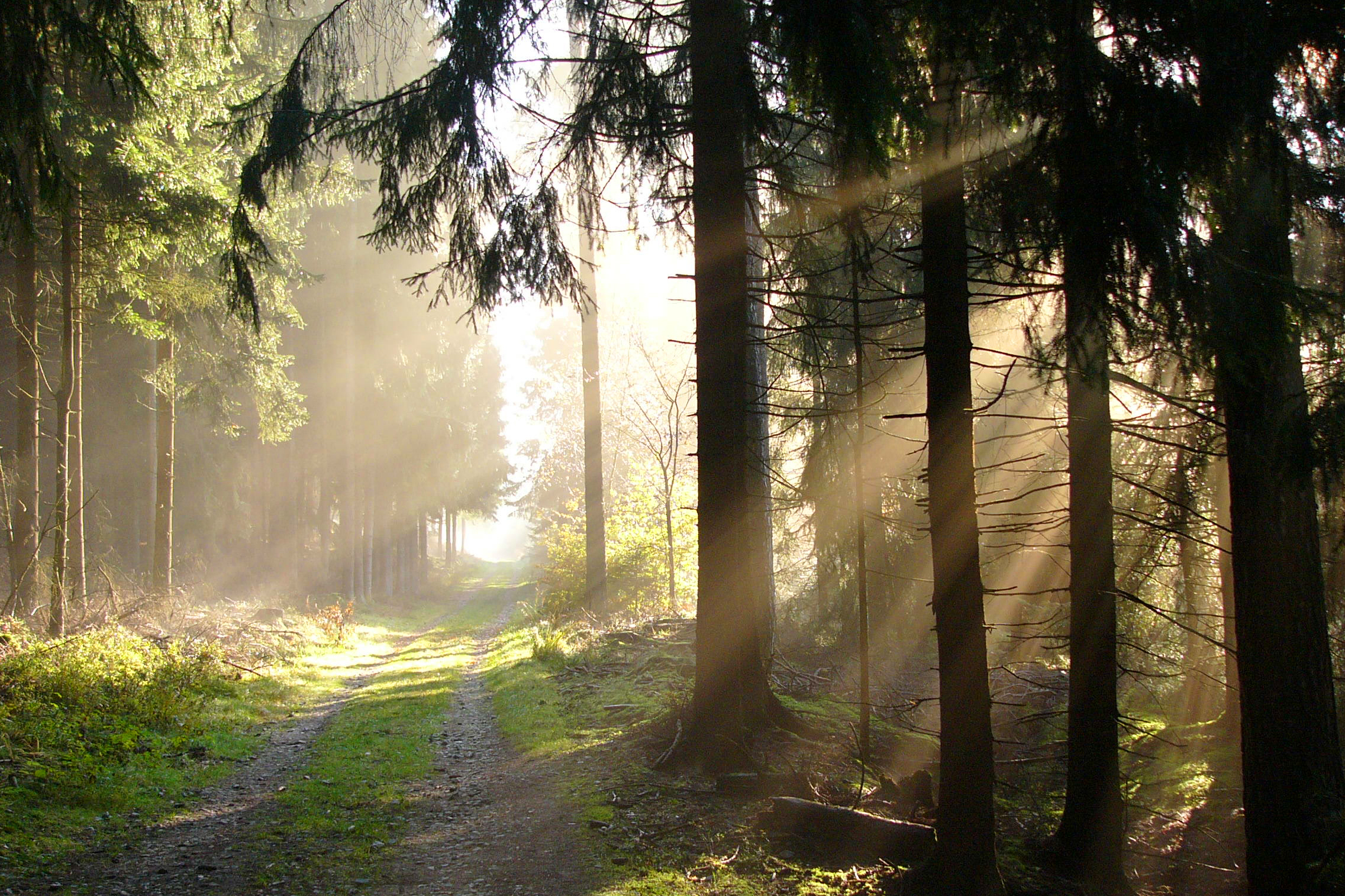 Autumn fog in Teutoburg Forest, Germany